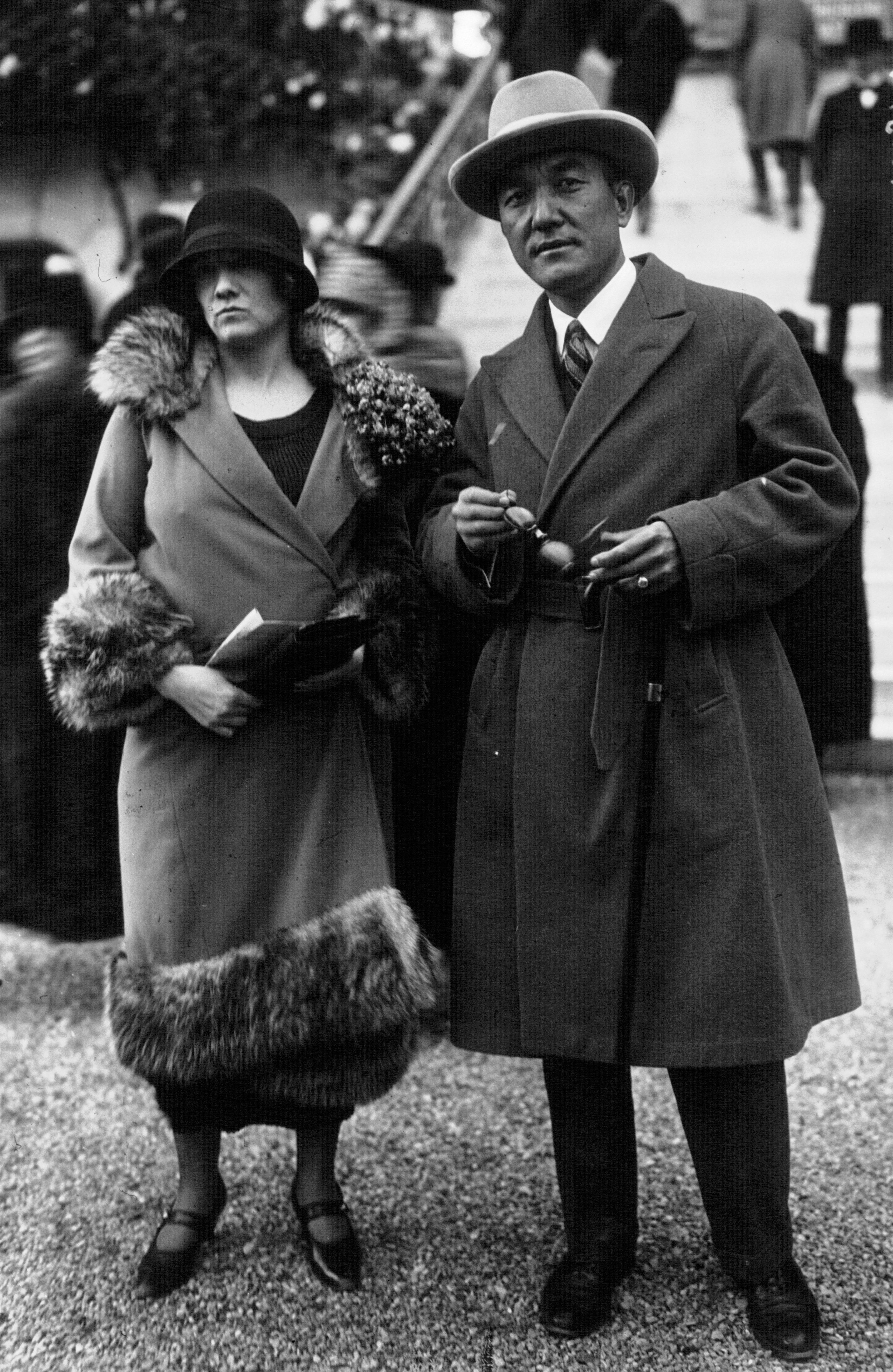 Japanese actor Sessue Hayakawa (1886-1973) at the Longchamp Racecourse in Paris in 1923.